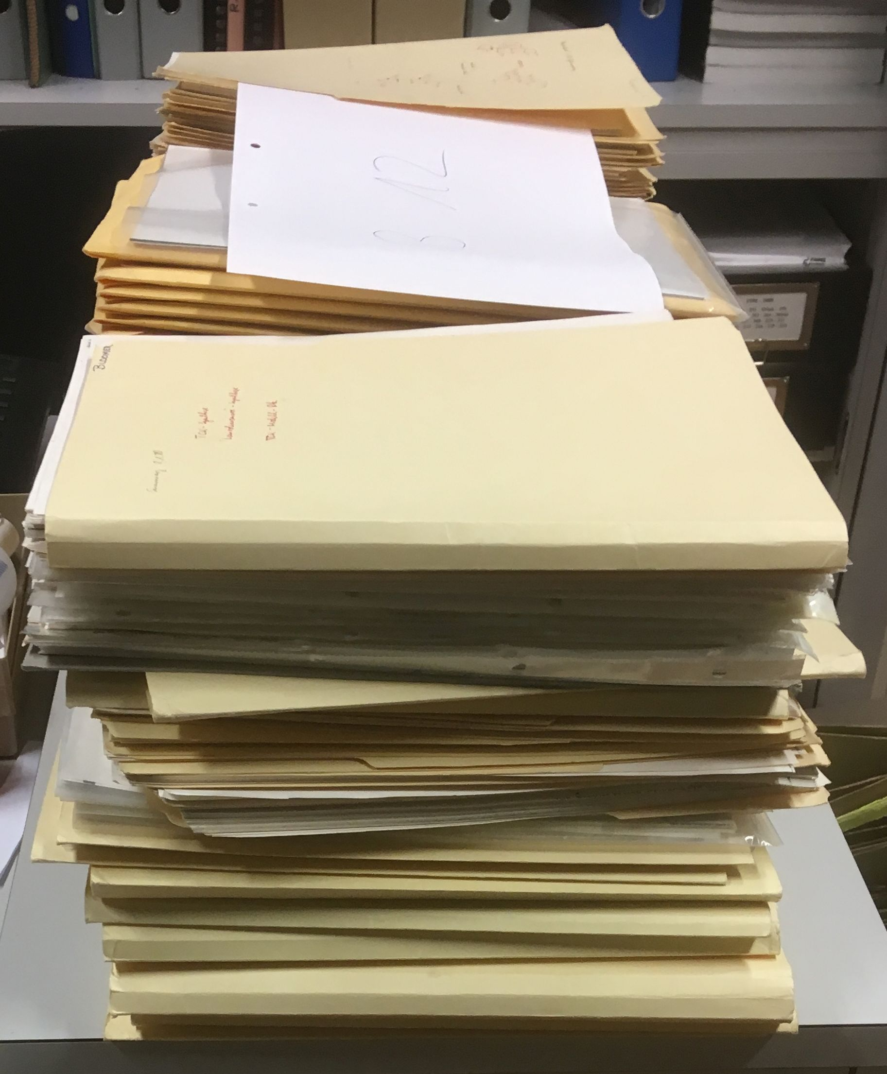 Stacks of reports from the 77 postdoctoral researchers involved in the total syntheses of vitamin B12 by R.B. Woodward et al. at Harvard University